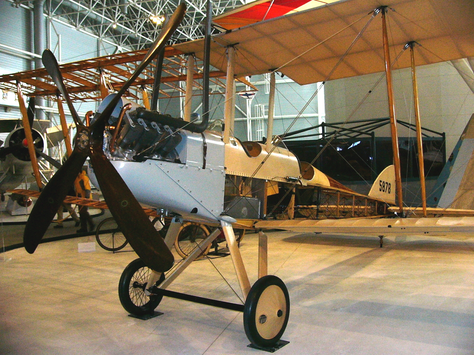 Royal Aircraft Factory B.E.2C in the Canada Aviation Museum, Ottawa, Ontario, Canada